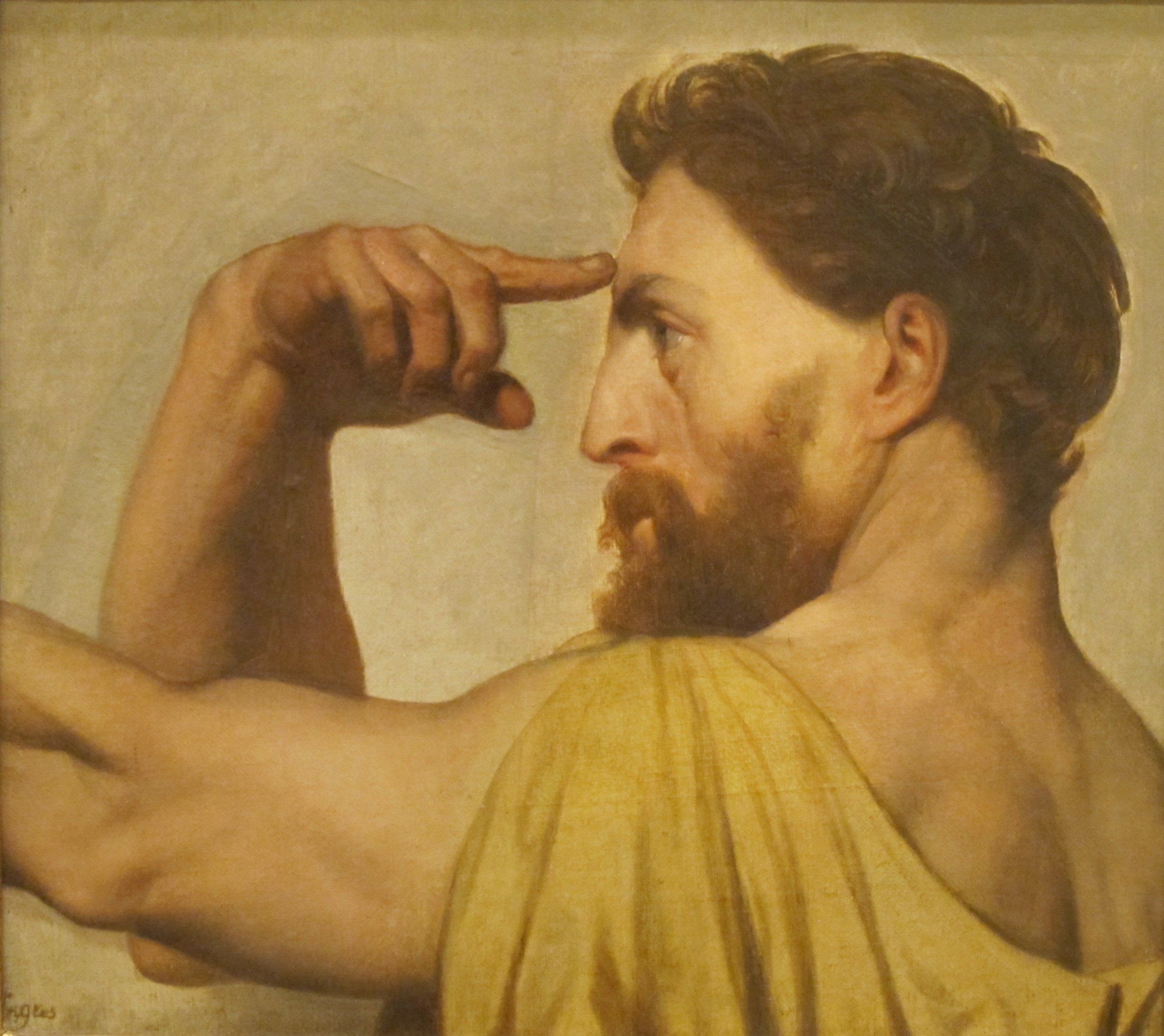 Study for Phidias in “The Apotheosis of Homer”, oil on canvas painting by Jean-Auguste-Dominique Ingres, 1827, San Diego Museum of Art